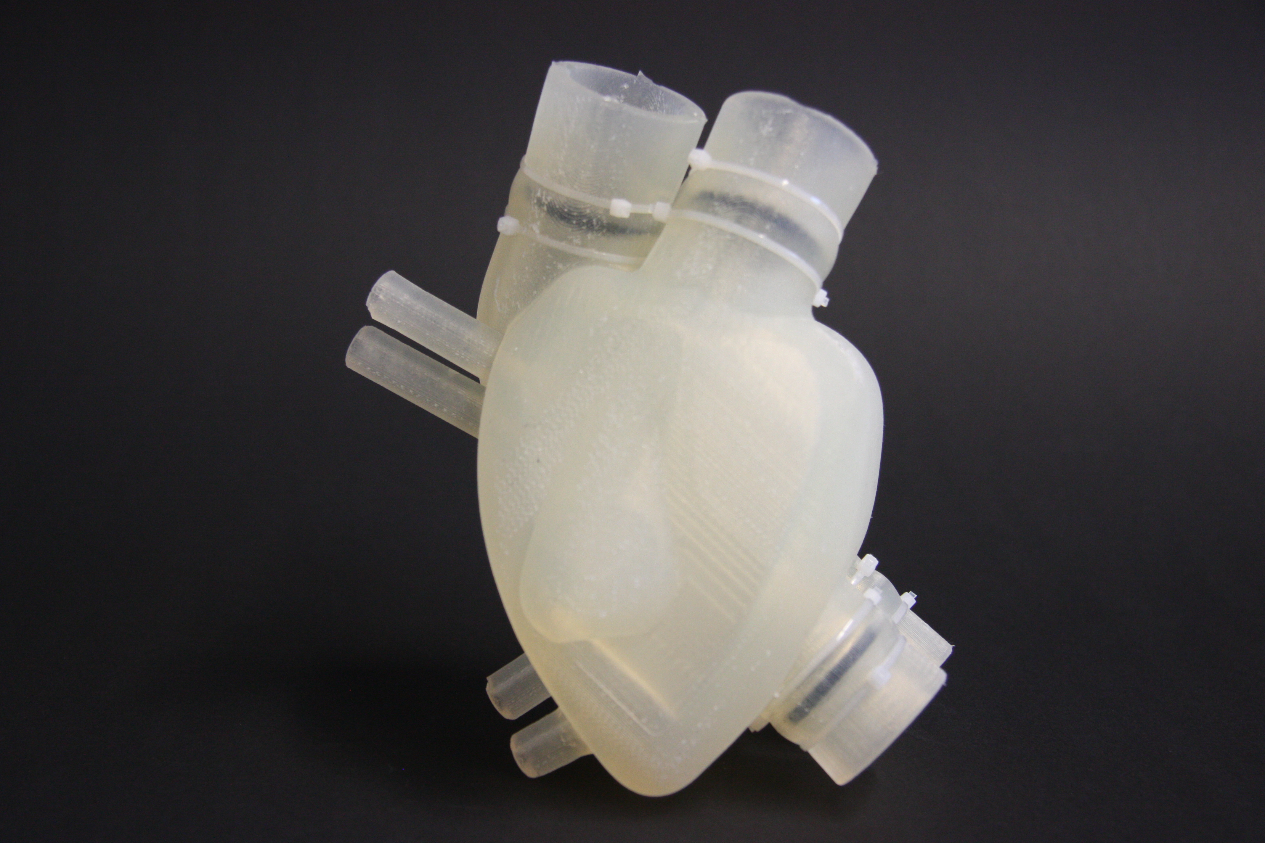 Soft Total Artificial Heart, developed in the functional material laboratory at ETH Zürich